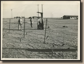 Mohammed Ali al-Taher - 1949 - Huckstep Guards